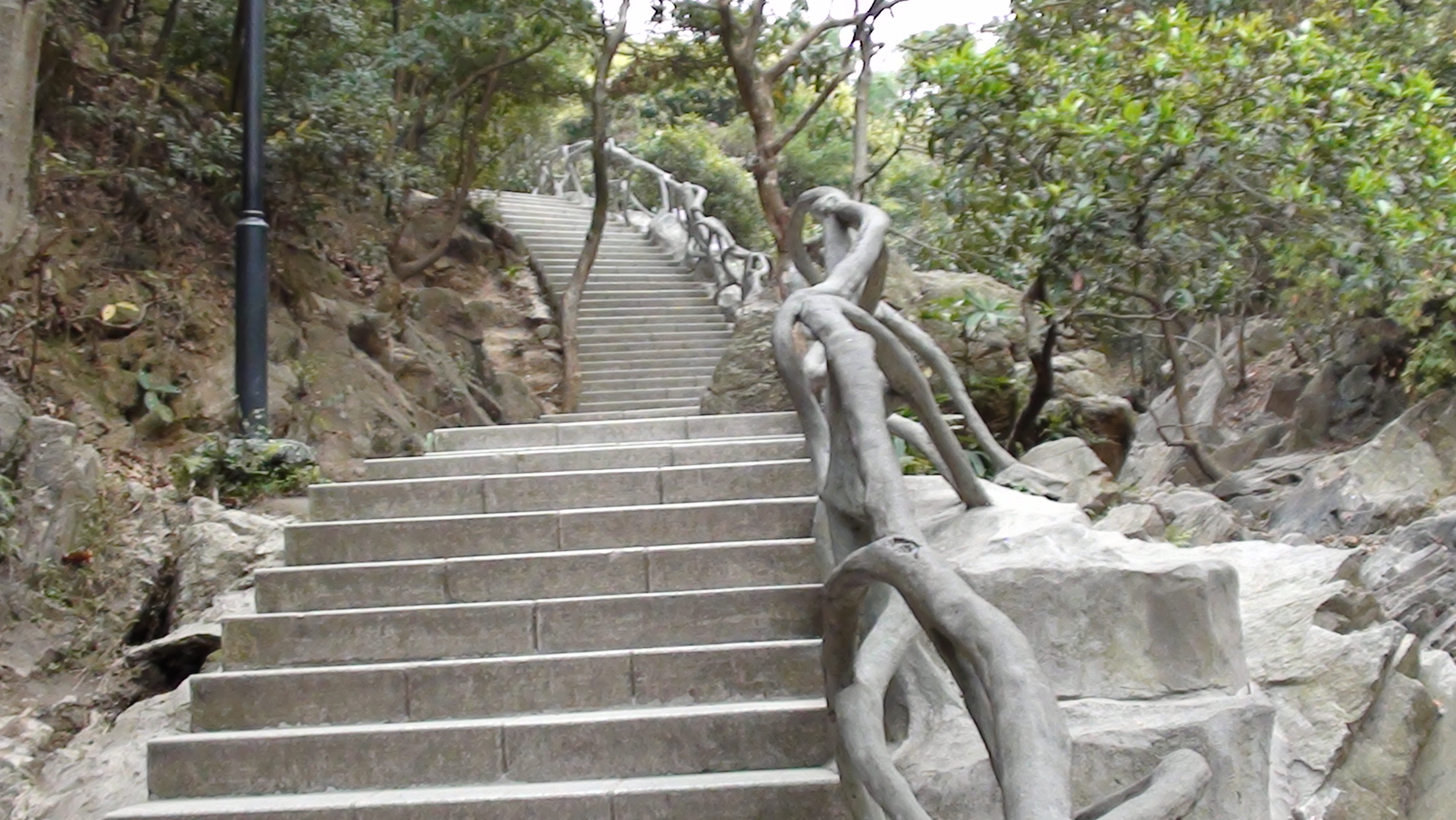 Climbing step